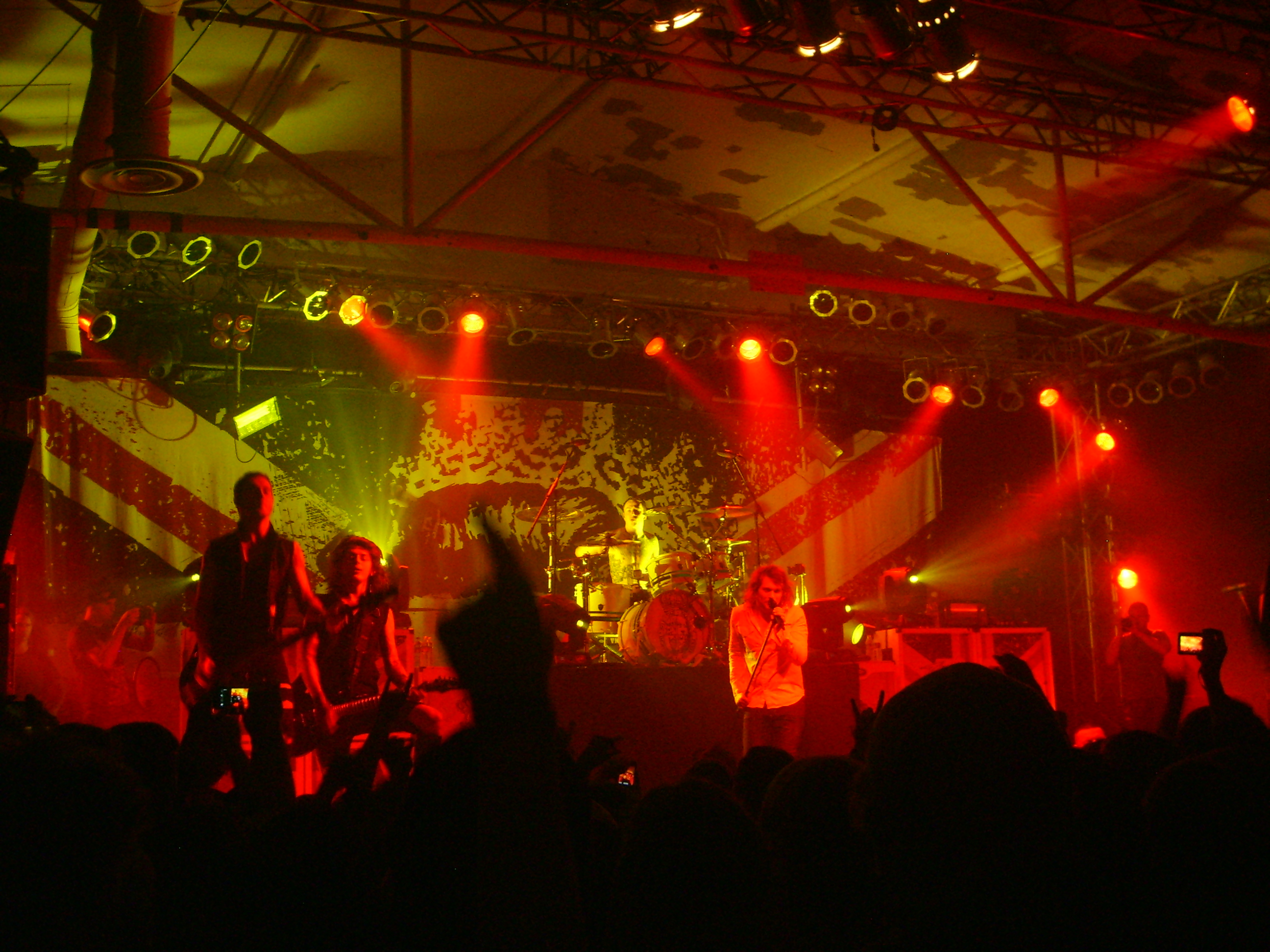 Asking Alexandria live during their headlining European tour at Essigfabrik in Cologne on February 7, 2013